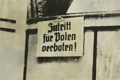 German sign "No Entrance for Poles" during the second world war in Poland (1939-1945).